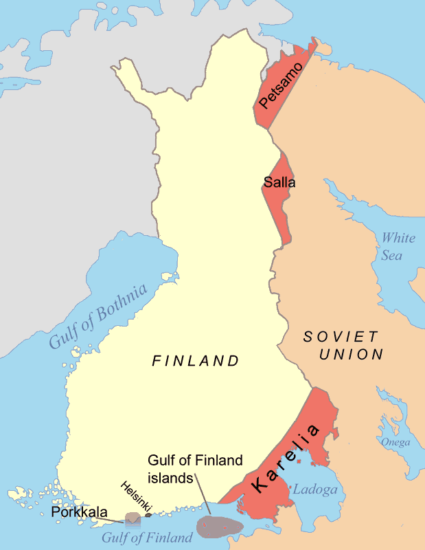 Map of Finnish areas ceded to the Soviet Union in 1944, after the Continuation War. See also Image:Finnish_areas_ceded_in_1940.png